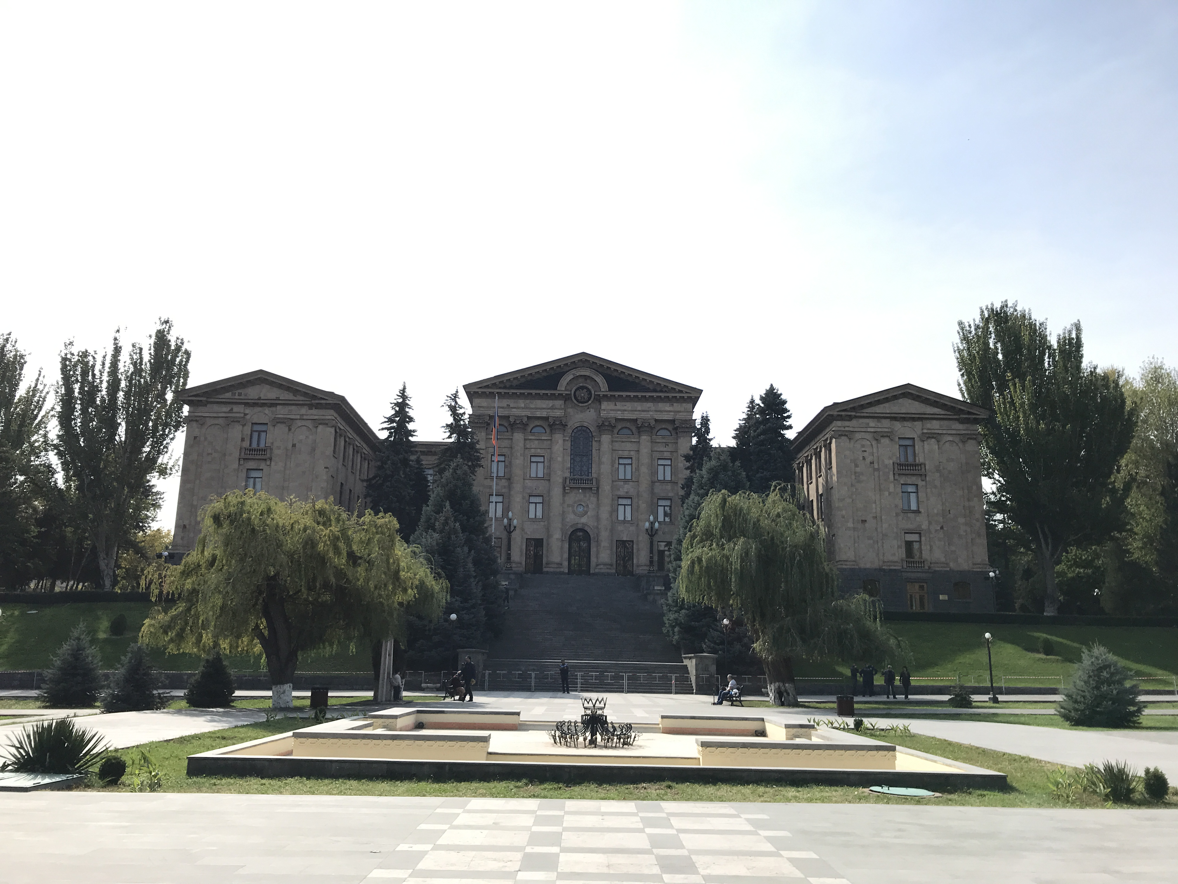 Photos captured during Wiki Loves Yerevan city tour by Wikimedia Armenia